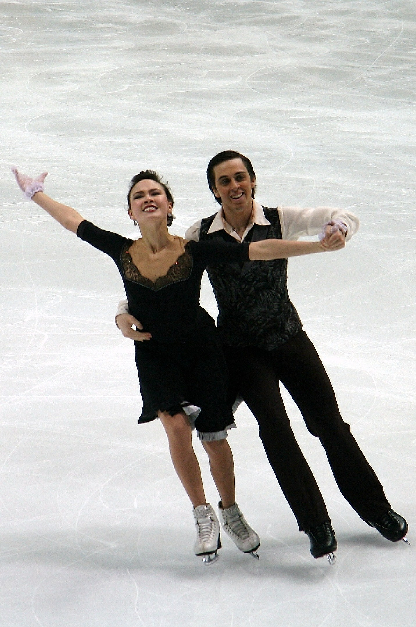 Madison Chock and Greg Zuerlein at the 2011 World Figure Skating Championships